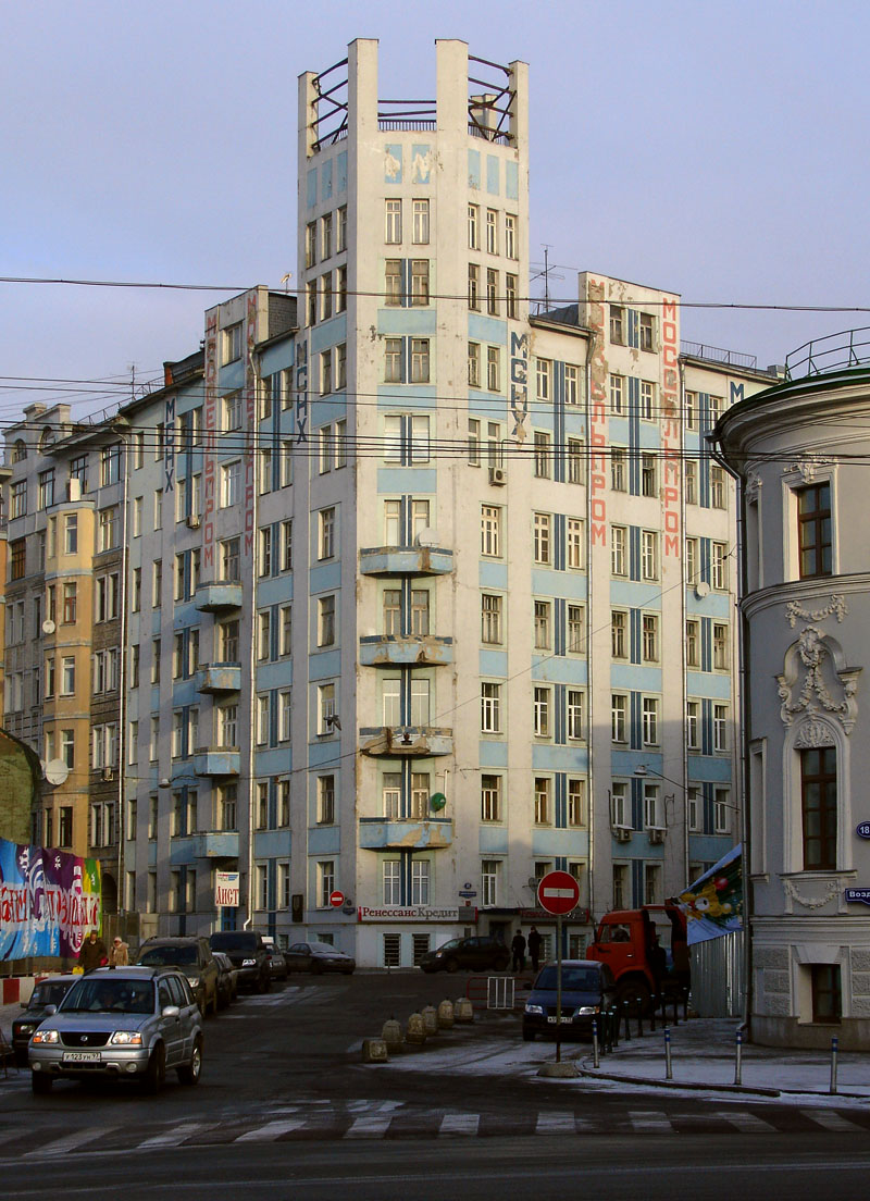 Mosselprom building in Moscow, 1912-1925